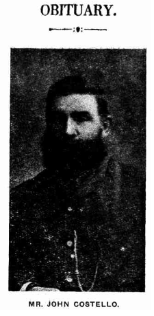 Potrait photo from Freemans Journal 12 April 1923